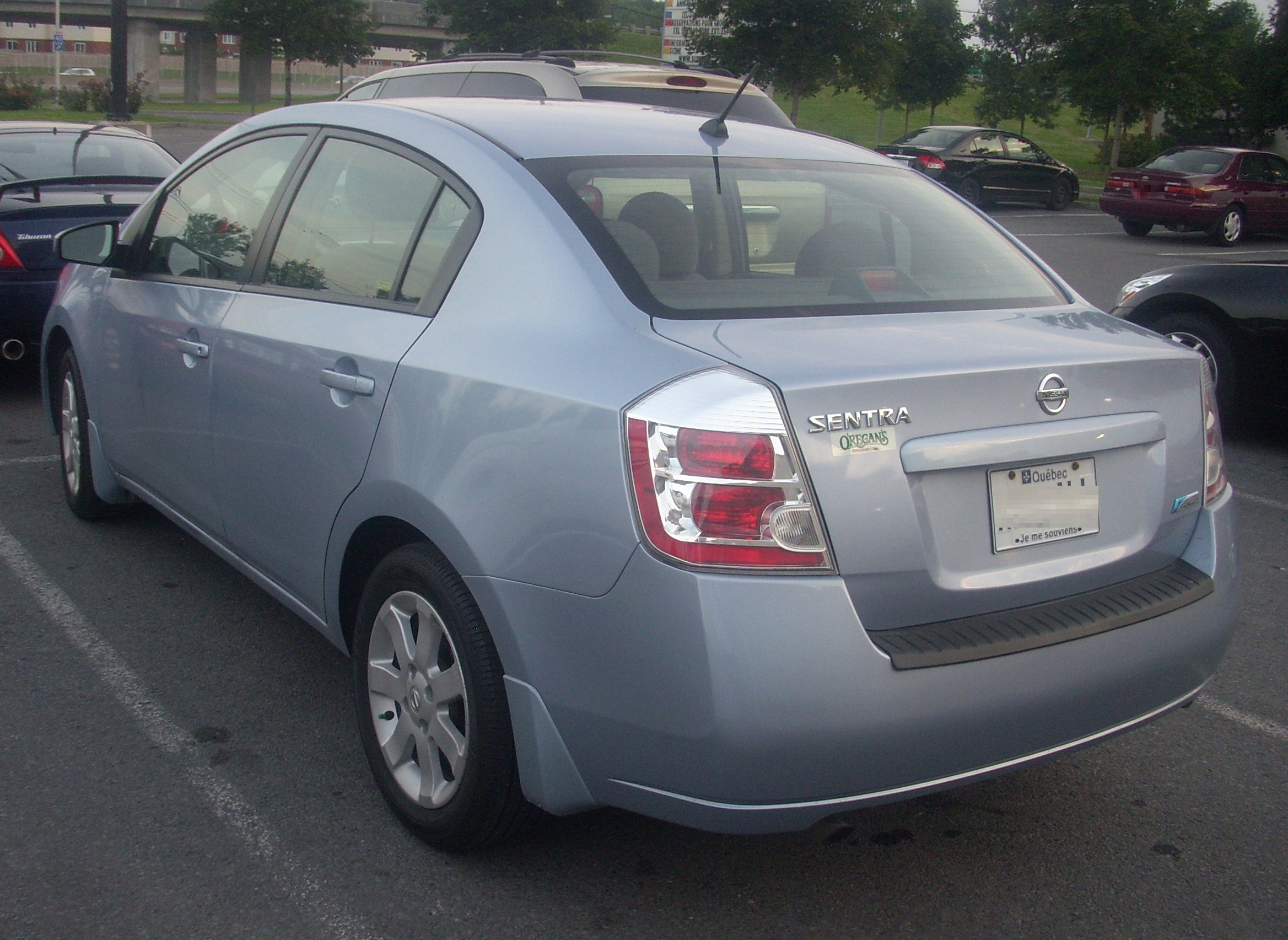 2009 Nissan Sentra photographed in Kirkland, Quebec, Canada.